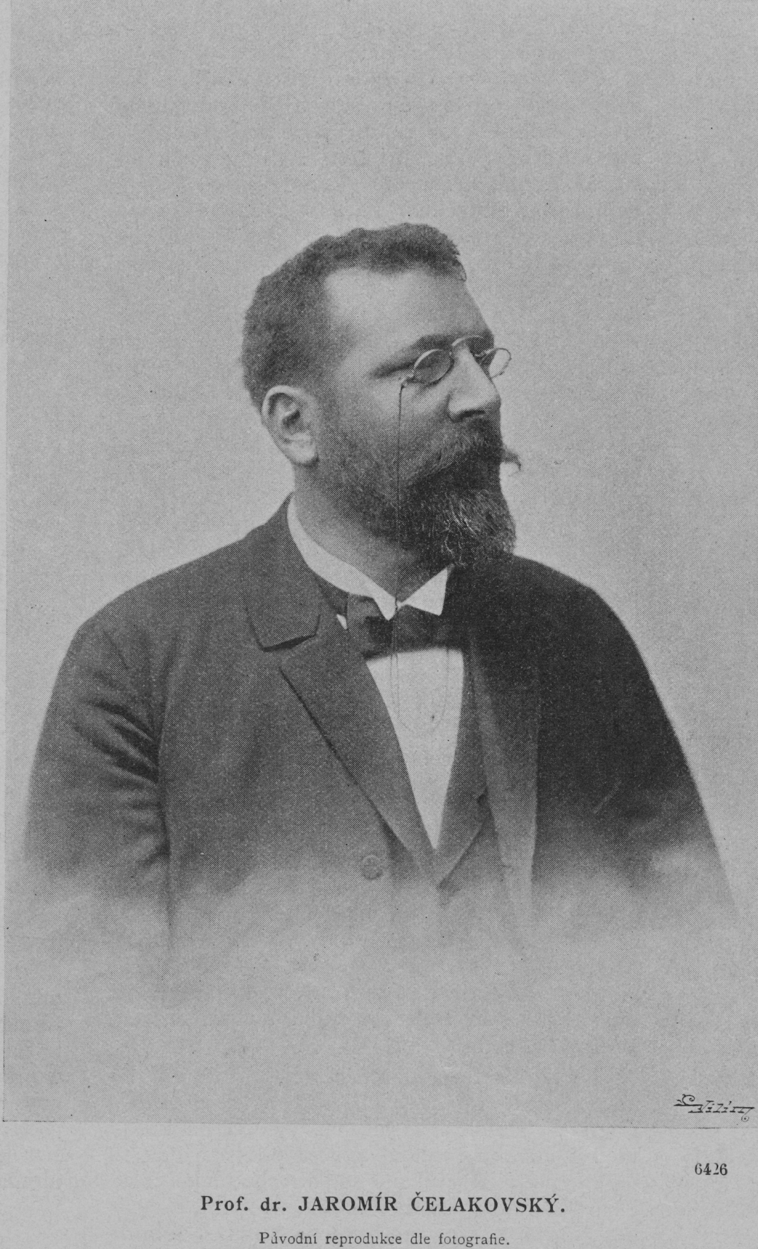 Portrait of Professor Jaromír Čelakovský (1846 - 1914), Czech archivist, lawyer and historian.